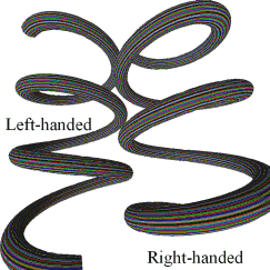 Left- and right-handed helix